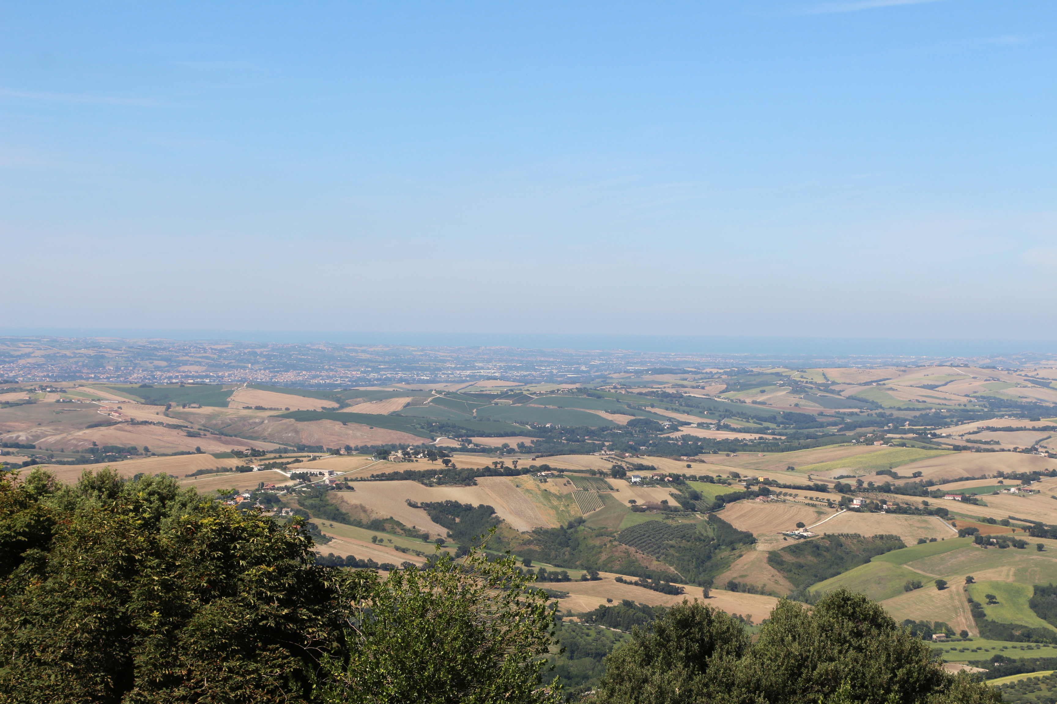 Cingoli